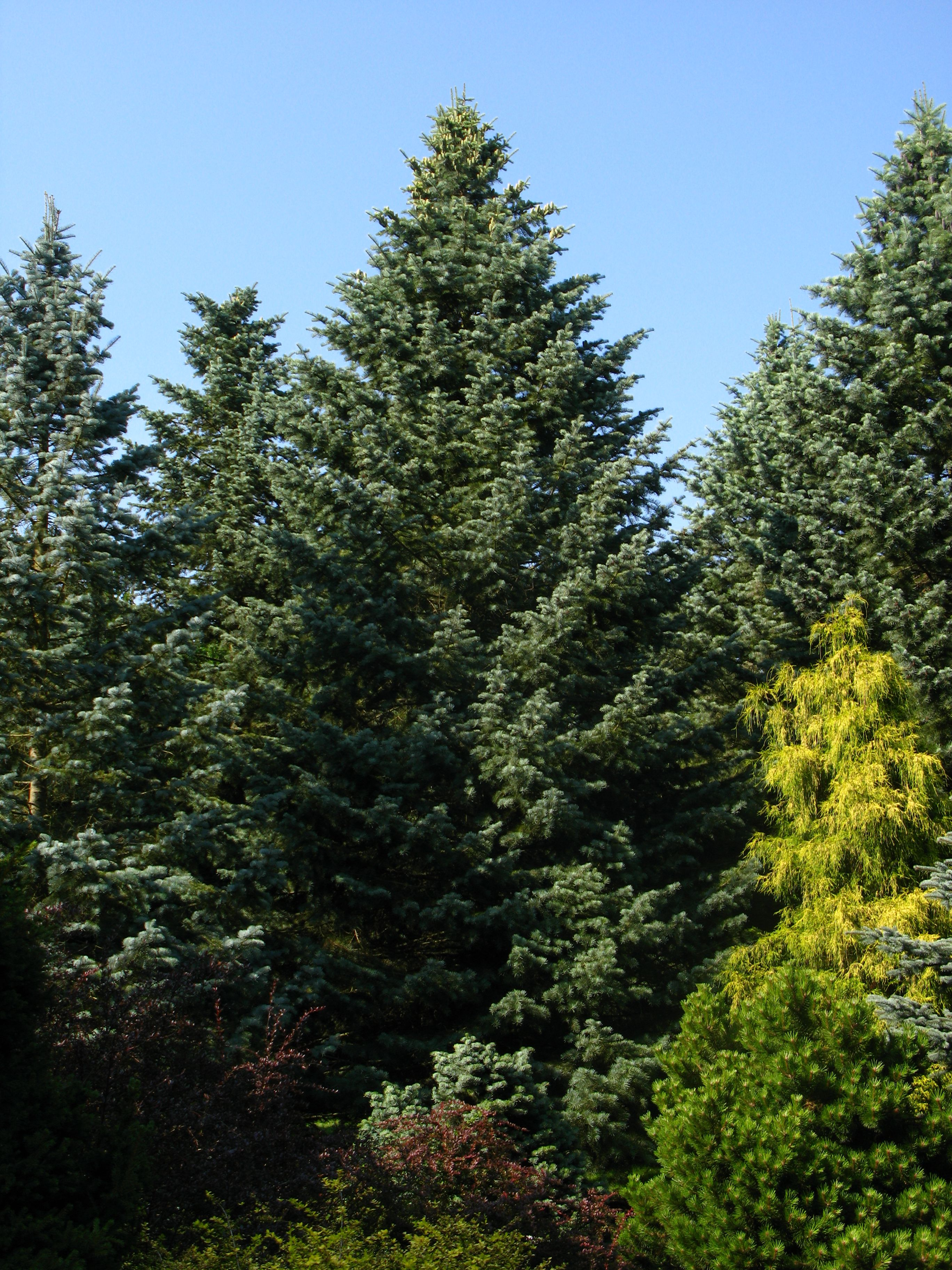 Abies concolor in Arboretum in PAN Botanical Garden in Warsaw